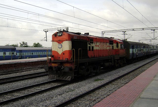 Konark Exp at towards Secunderabad at Moula Ali in Andhra Pradesh